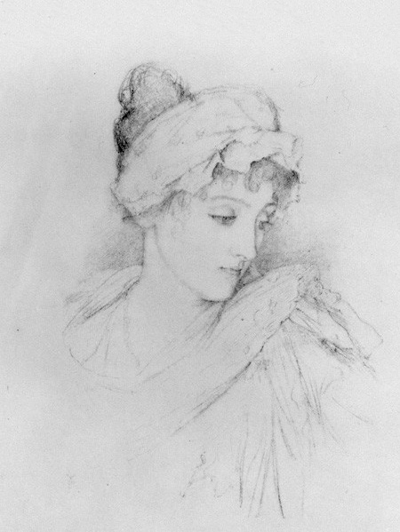 Portrait of Norah Lindsay (1873–1948)